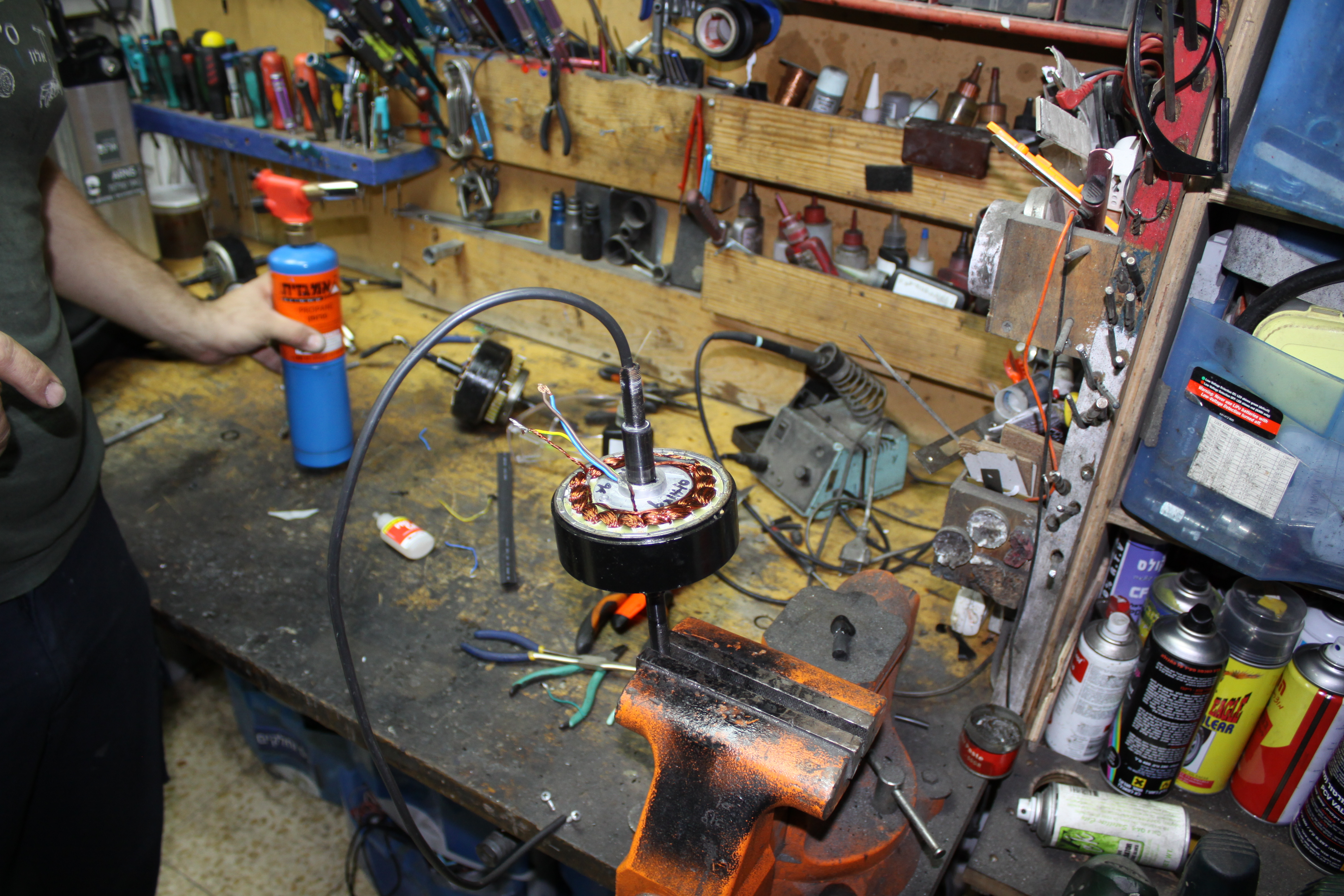 המנוע שמורכב ב90% מהאופניים החשמליים